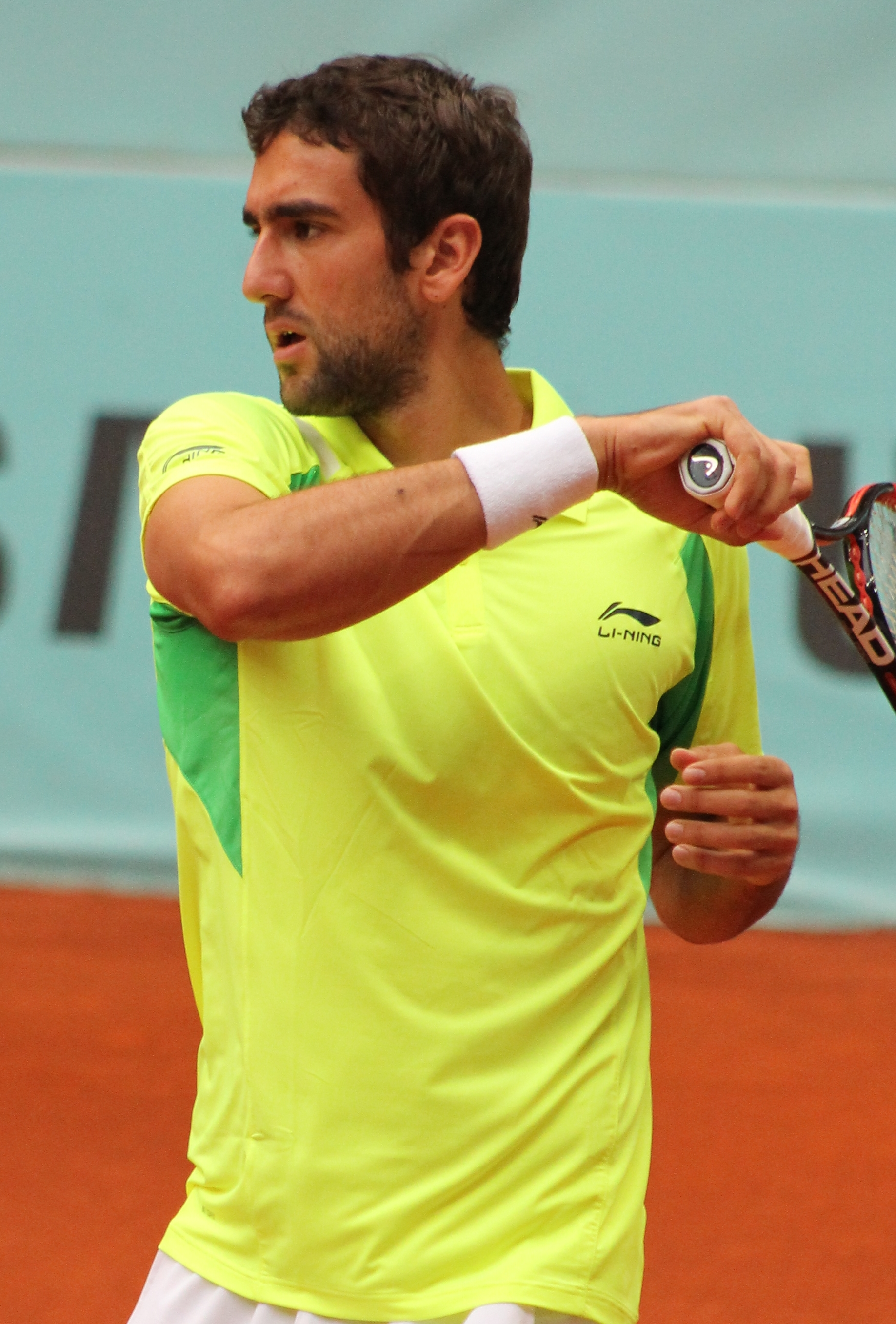 Cilic MA14 (16) - Copy